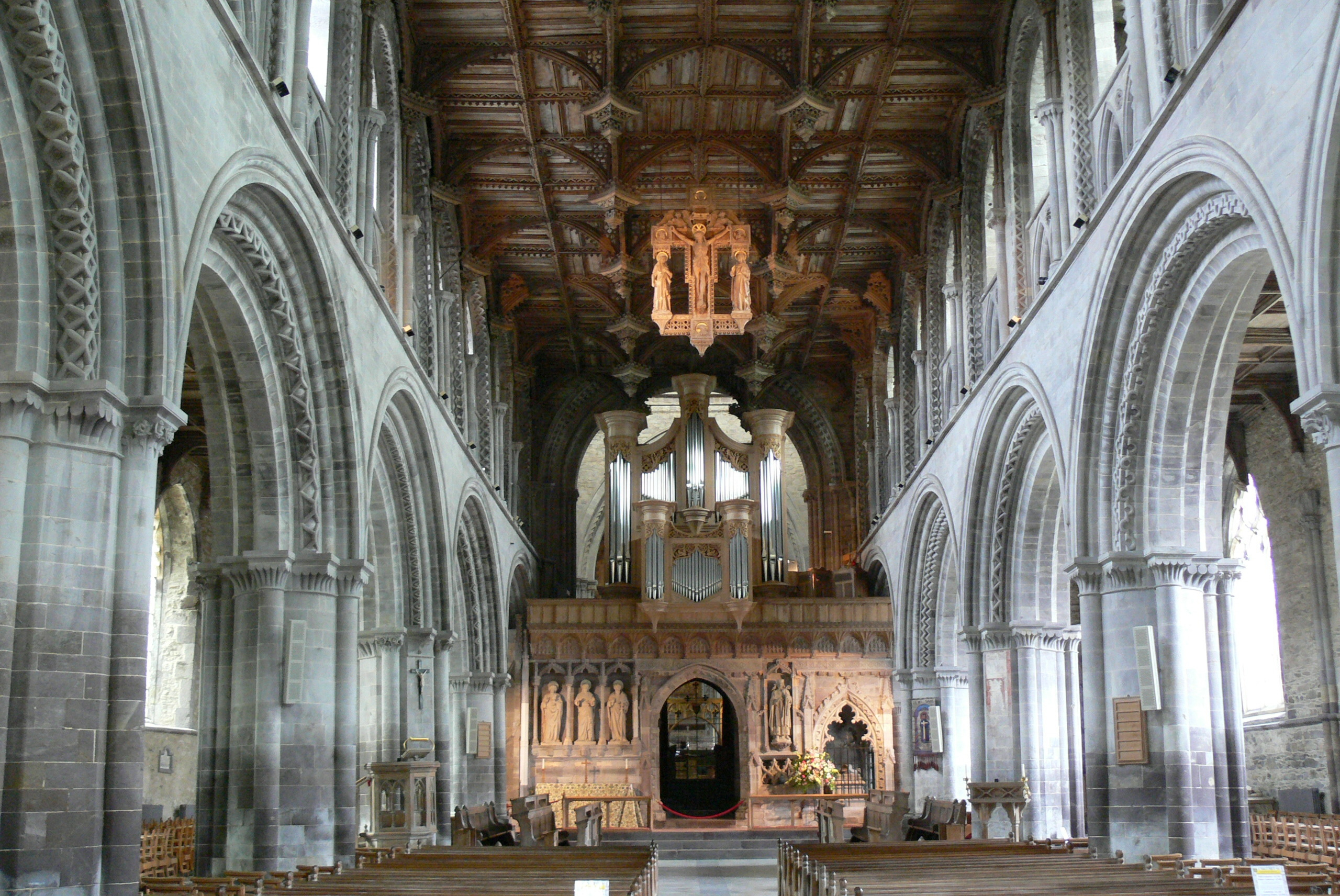 St.David's ( Wales ). Cathedral: Nave ( 12th century ).